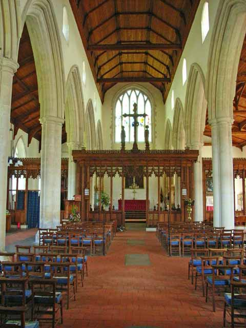 Interior of the Church of St Bartholomew in Orford, Suffolk, England. A Grade I listed medieval church.